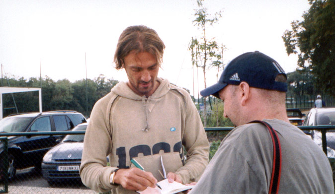 Meeting with Dugarry